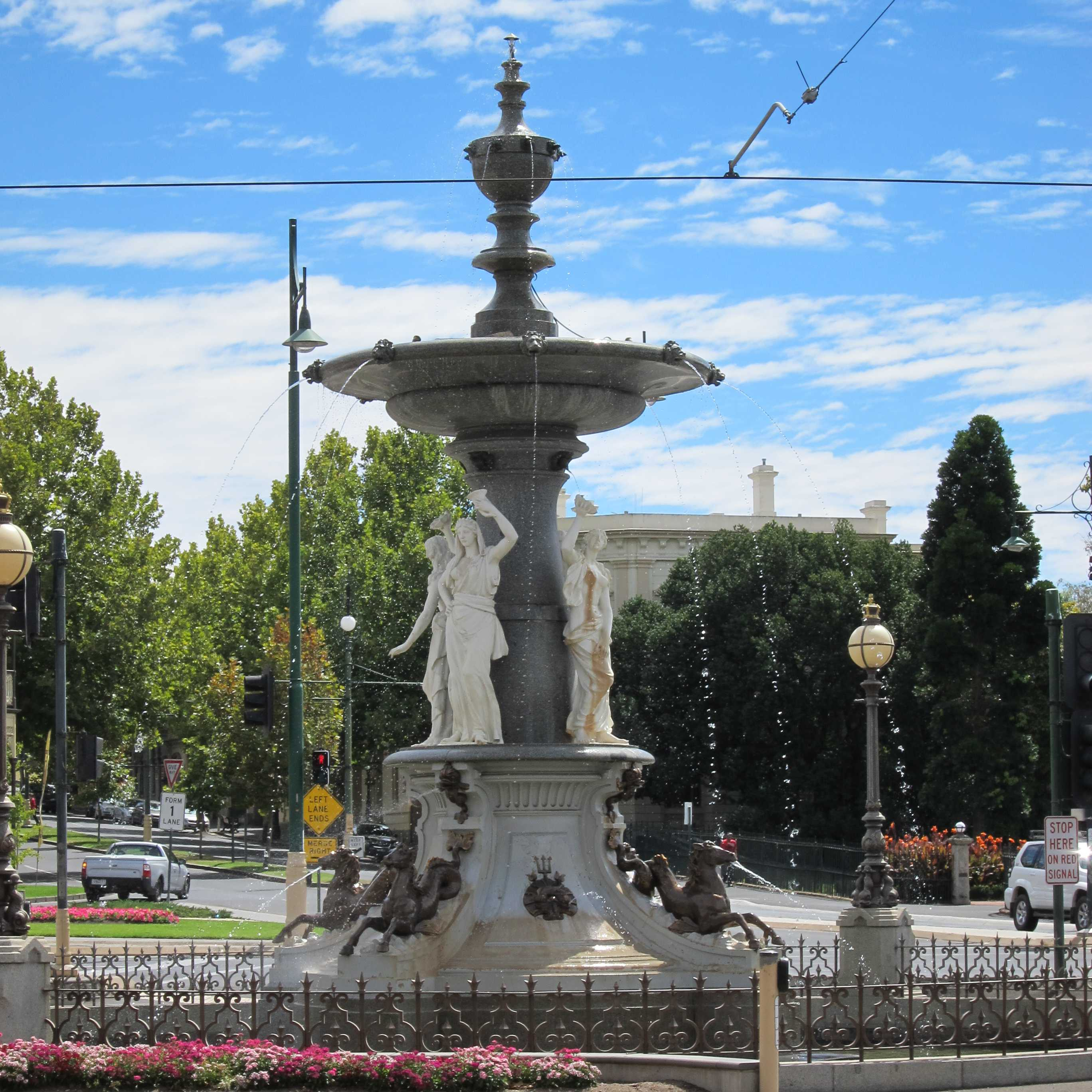 View of Alexandra Fountain (built 1881) situated in 'Charing Cross' (the intersections of View St and Pall Mall, in Bendigo, Victoria, Australia.